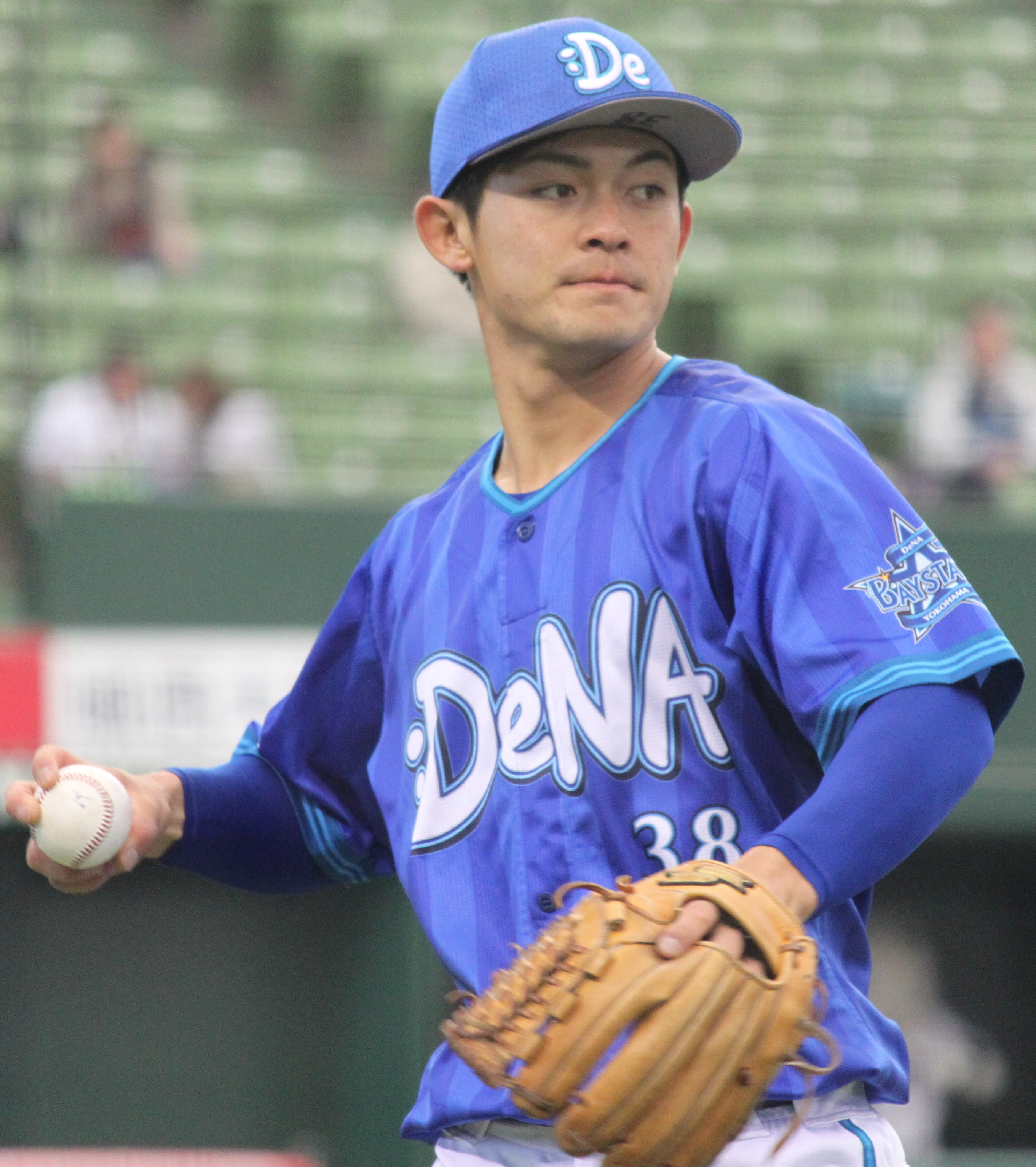 Koki Yamashita, infielder of the Yokohama DeNA BayStars, at Seibu Dome.